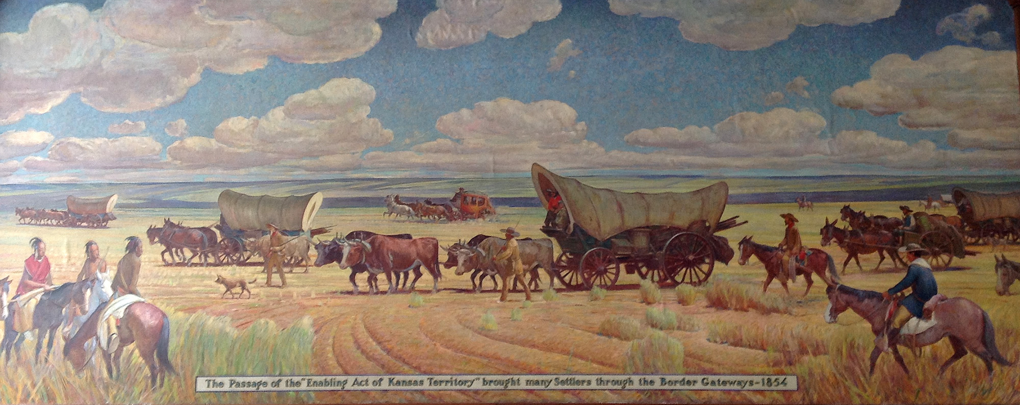 Mural by Oscar Berninghaus depicting immigrants arriving in Kansas territory following the Kansas-Nebraska Bill of 1854. The mural is located on the second floor of the Federal Courthouse.